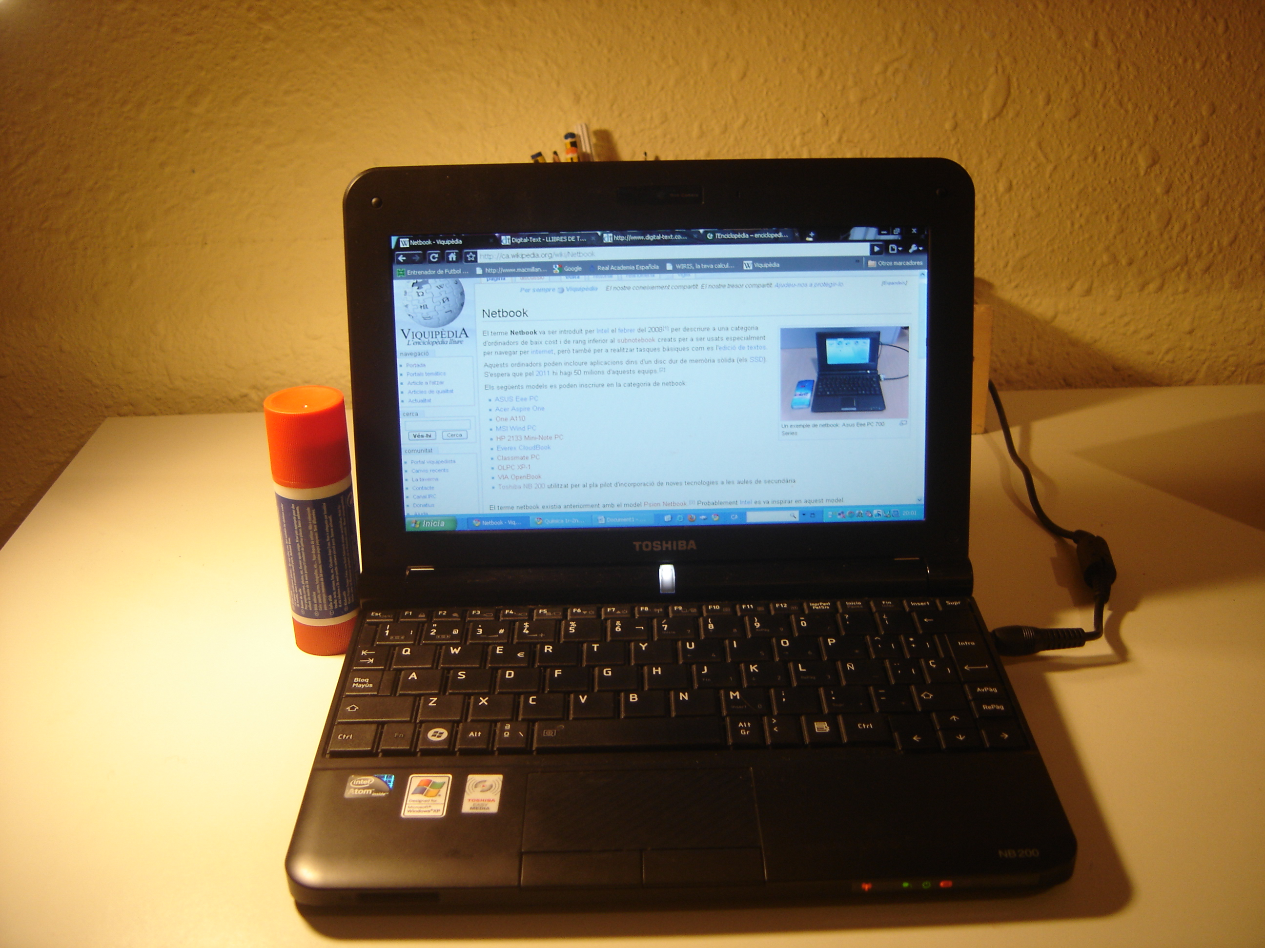 This computer is mostly used for development of pilot scheme of integrating new technologies into high school classrooms.